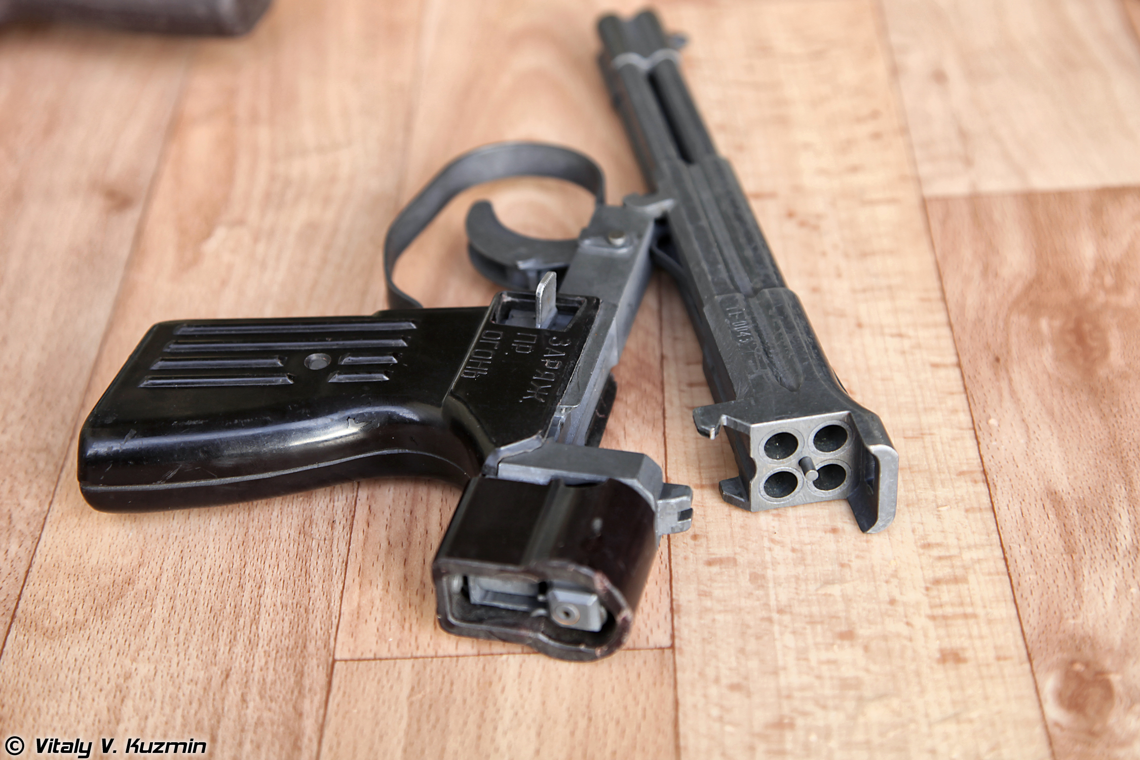 SPP-1M underwater pistol - Celebration of 70th anniversary of the Victory in the Battle of Stalingrad in TSNIITOCHMASH